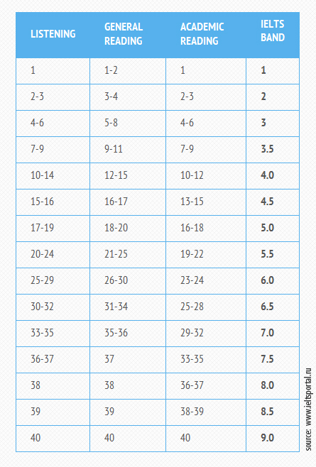 IELTS Listening and Reading Marking System. Please note: this table can only be used as an approximate marking guide.